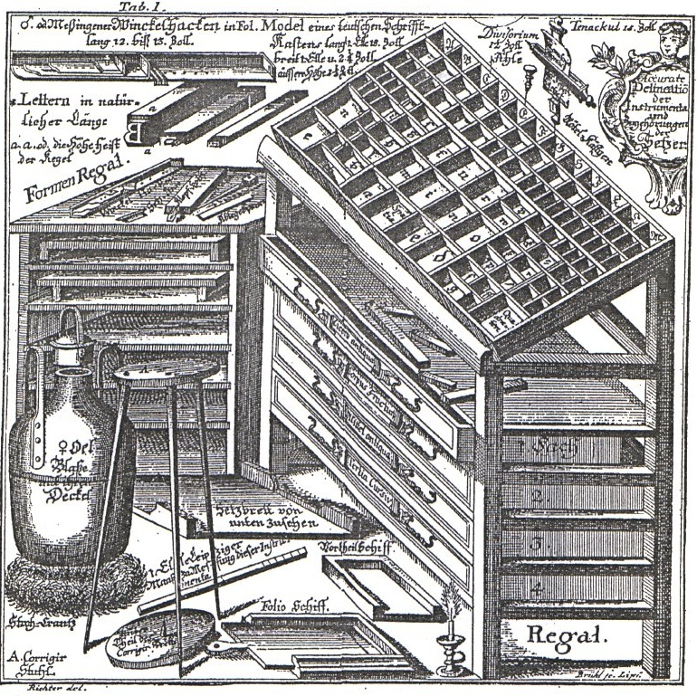 A drawing of a classical typesetter's sorting case.